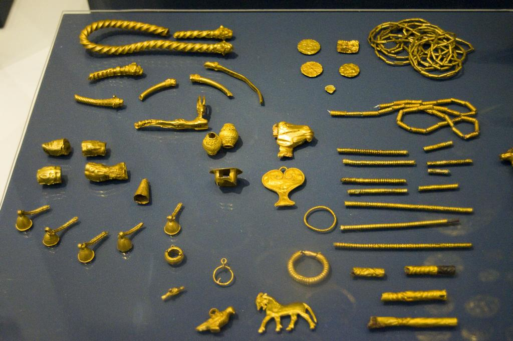 A collection of 5th-4th BCE gold objects from the Oxus Treasure now in the British Museum. Many of the pieces in the Oxus Treasure are bent, chopped into small pieces or missing their original coloured inlays. This was first thought to be the work of the looters who found and sold these items in the 19th century. However, this is also a feature of hoards of precious metals. A similar hoard of chopped silver was excavated at Babylon.